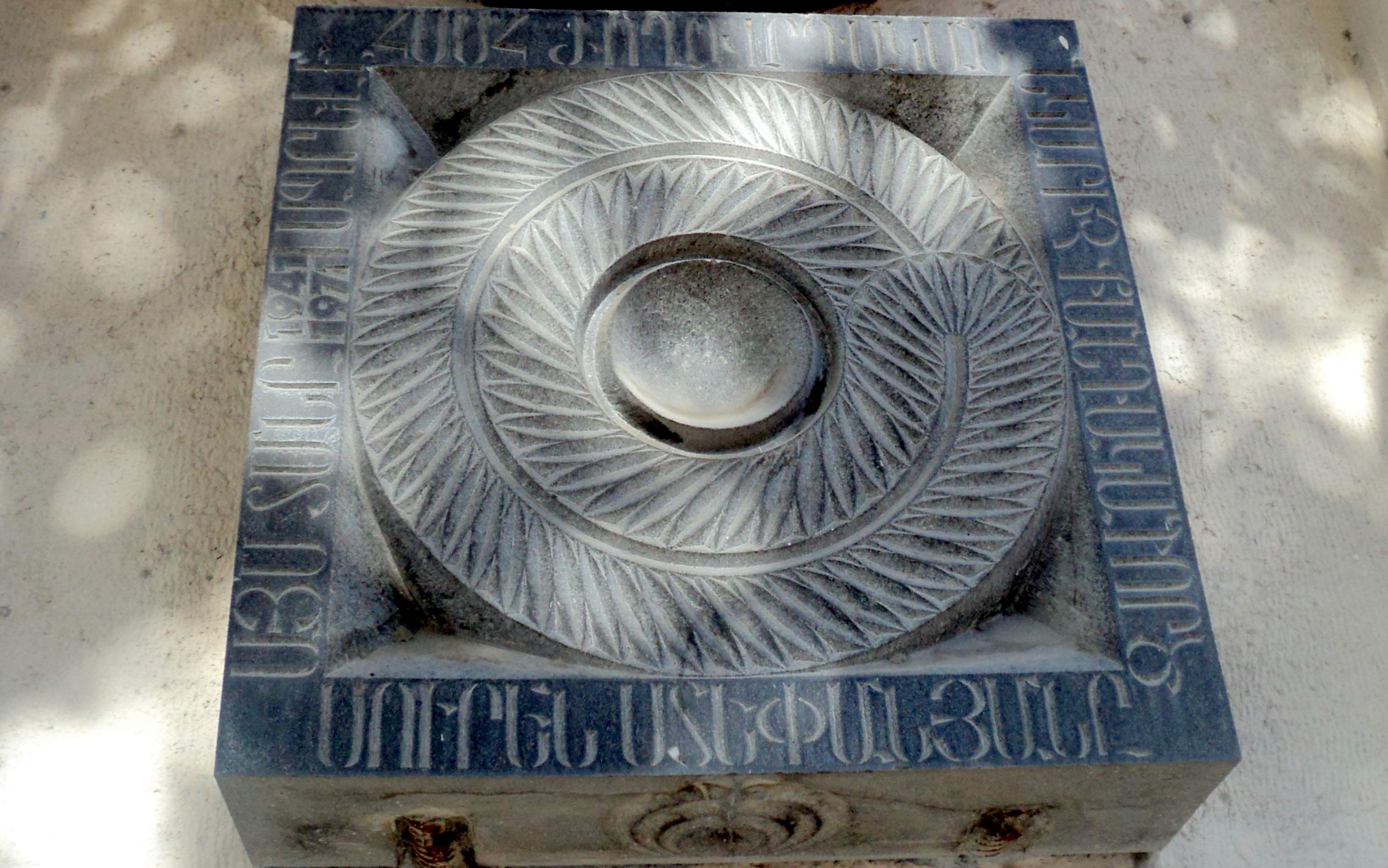 Sculptor Suren Stepanyan's plaque